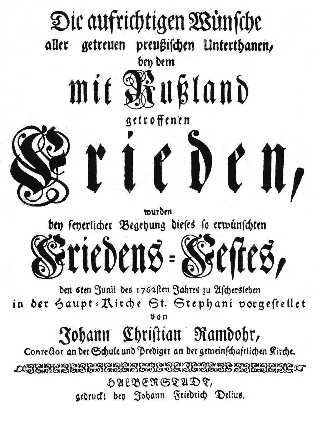 Johann Christian Ramdohr - Announcement of a peace prayer, Aschersleben 1762